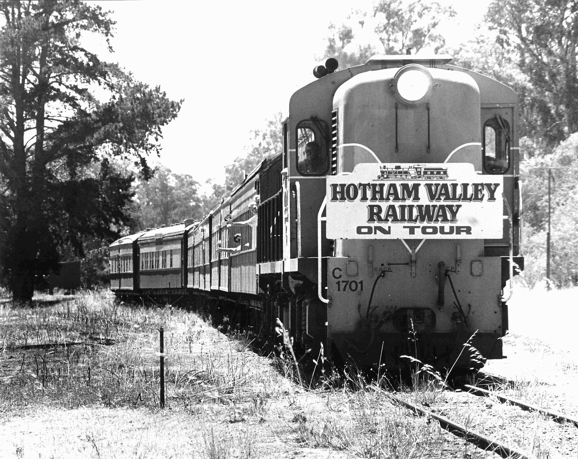 Western Australian Government Railways (WAGR) C class diesel-electric locomotive no C 1701, in Westrail orange and blue livery, passes through Wonnerup with a Hotham Valley Railway charter service that was also the last passenger train to Busselton, Western Australia.